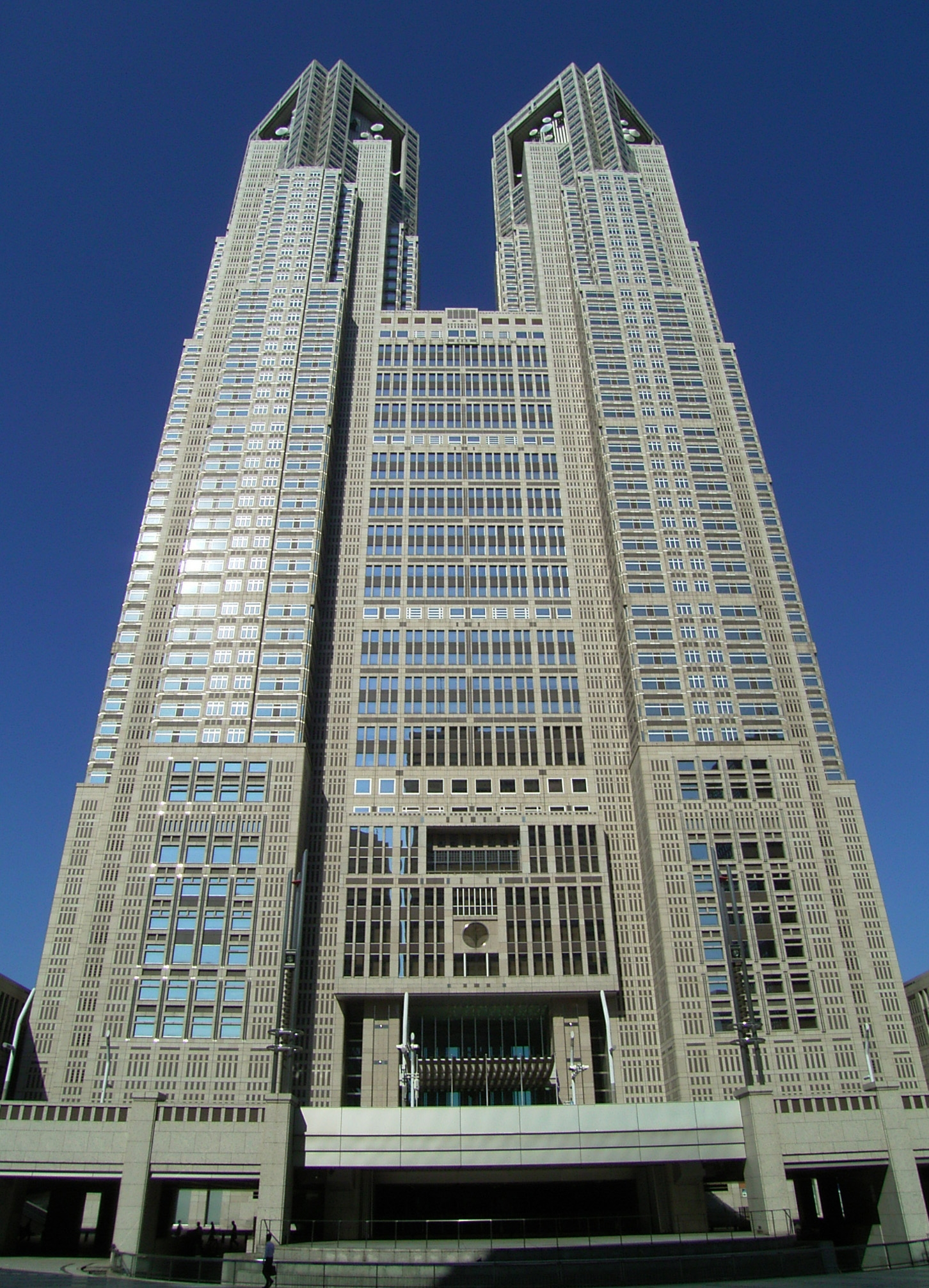 Tokyo Metropolitan Government Building Shinjuku Tokyo Japan Tokyo Metropolitan Government Building address = 2-8-1, Nishishinjuku, Shinjuku-ku, Tokyo